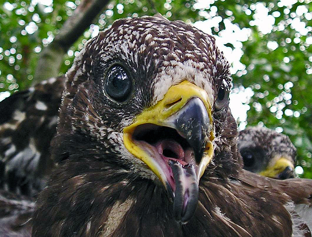 Young Honeybuzzard head, note slit nostrils